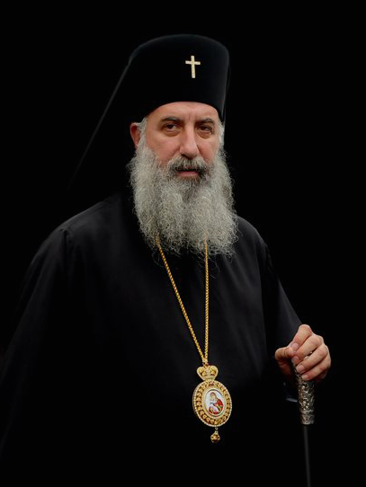 gaegaegaaegagaeg